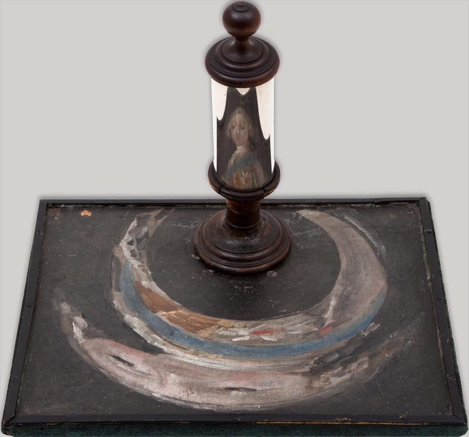 Photograph of the secret portrait in the West Highland Museum . The cylindrical mirror focuses the brush strokes on the base to show the Prince's image